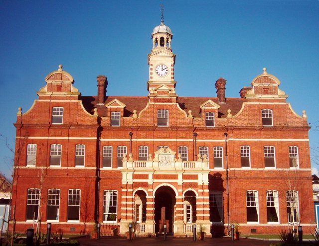 Original Norfolk & Norwich Hospital. Restored and set to form the centrepiece of the Fellowes Plain redevelopment - currently the sales office for the expensive bits.